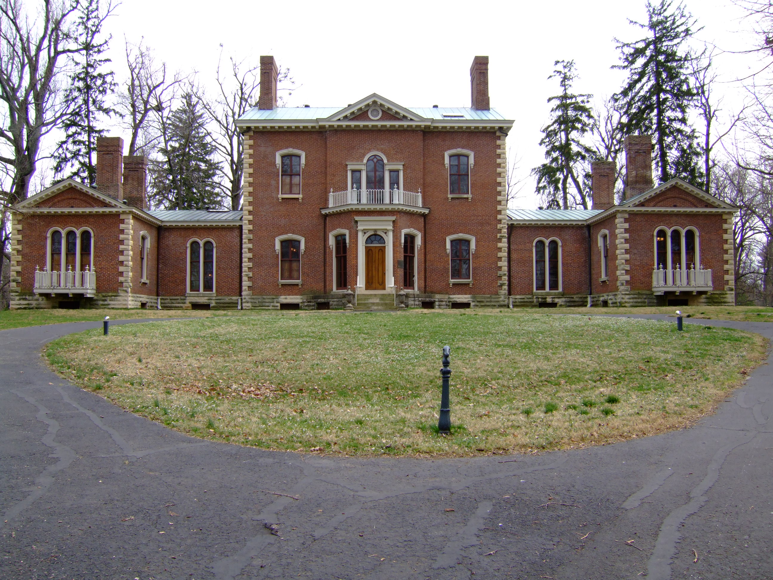 Henry Clay's mansion at Ashland in Lexington, Kentucky. Self made photo.